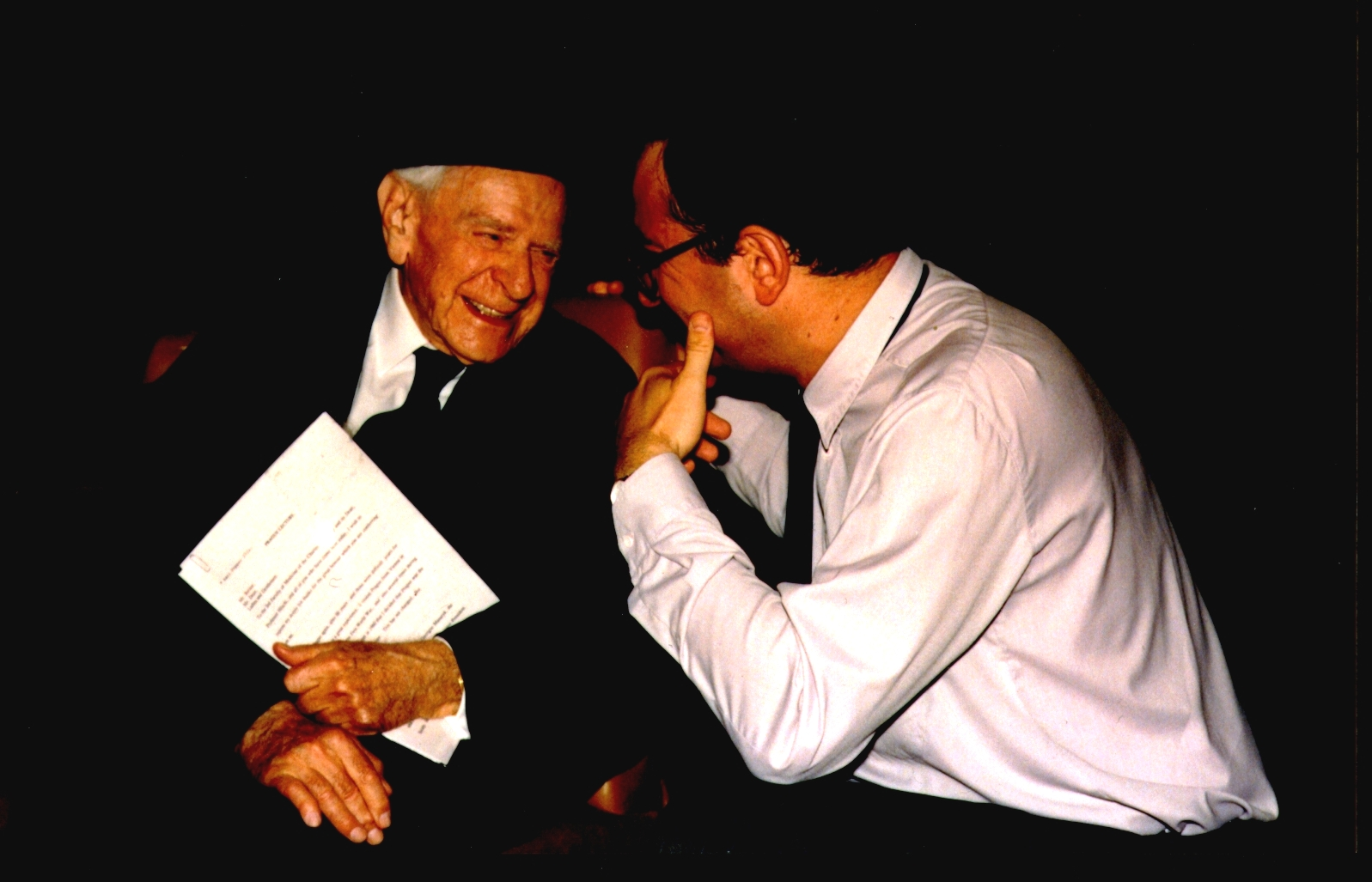 Sir Karl Popper, Austrian and British philosopher and a professor at the London School of Economics and Prof. Cyril Höschl, MD, Ph.D., FRCPsych. (right), Czech psychiatrist and scientist. K. Popper received the Honorary Doctor´s degree of Charles University in Prague, as proposed by the Third Faculty of Medicine.